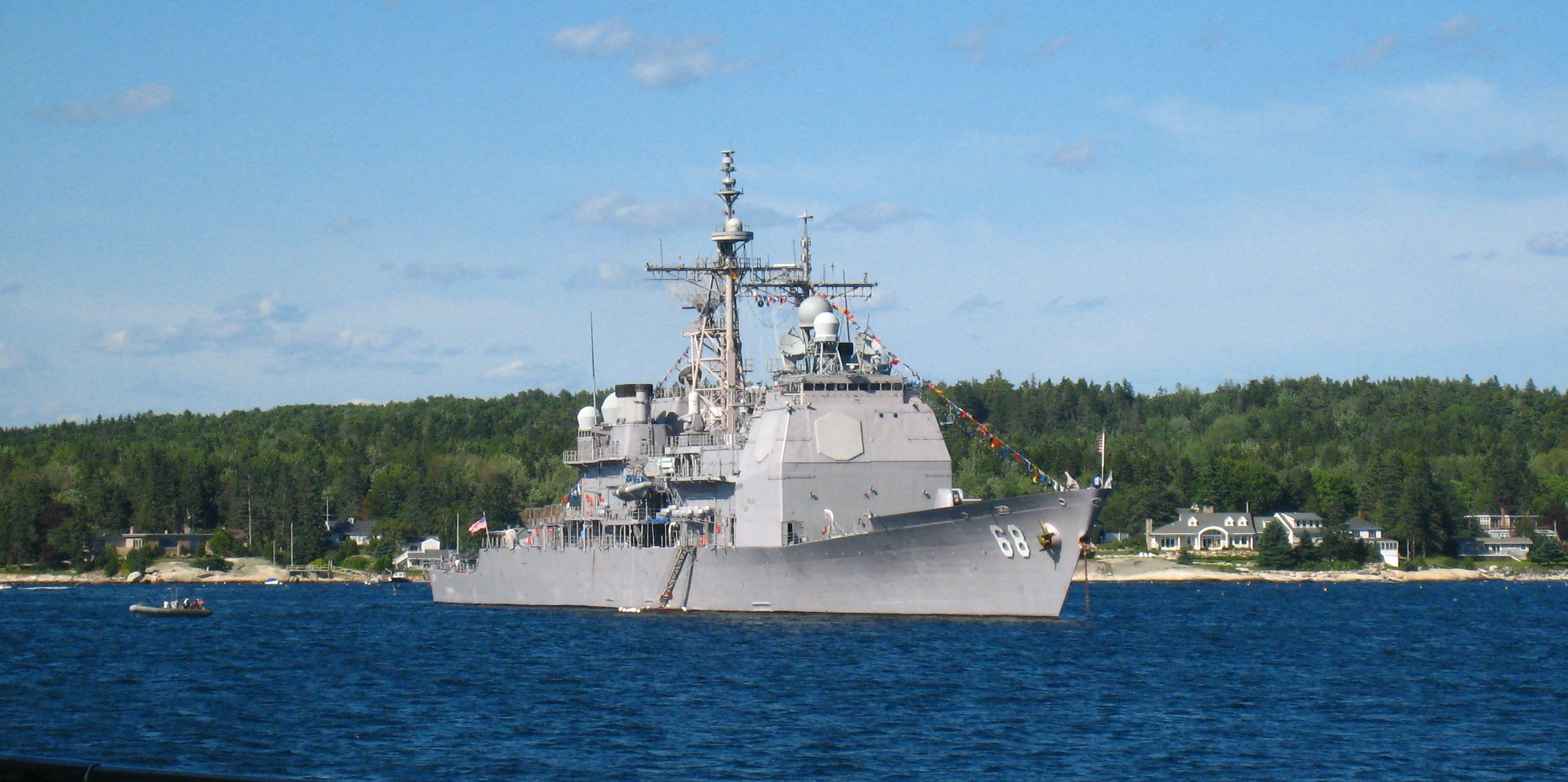 Profile view photograph of the USS Anzio (CG-68) anchored at Boothbay Harbor, Maine, USA, in June 2008.